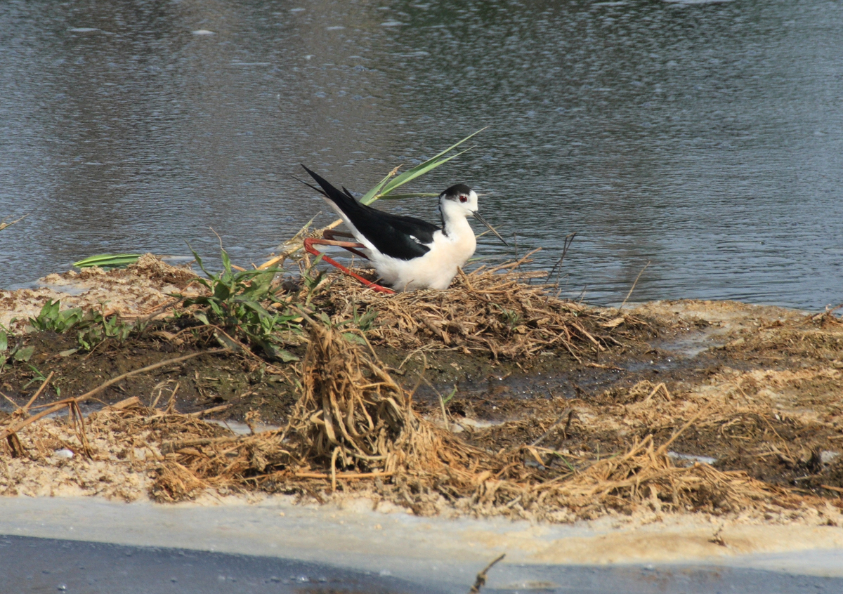 Black-winged stilt (Himantopus himantopus), Petőháza, Hungary